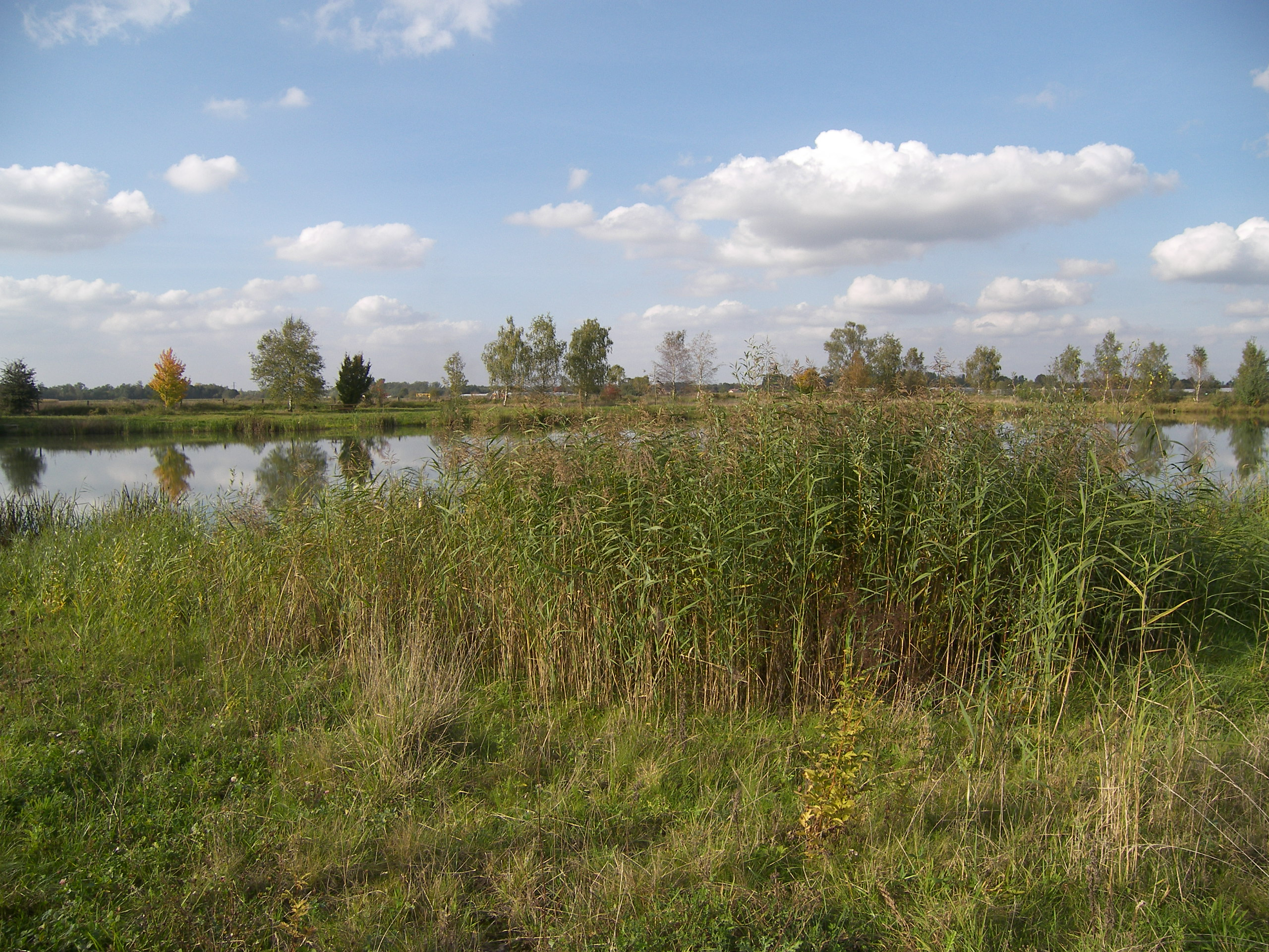 Micromys minutus typical habitat in western Europe